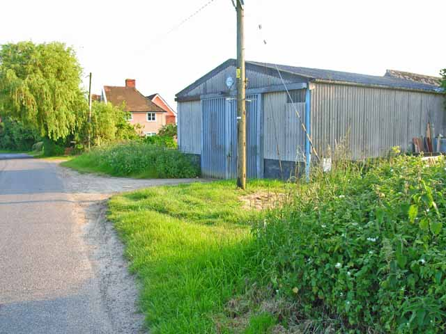 Lodge Farm, Broad Street. On the road from Groton to Brent Eleigh.